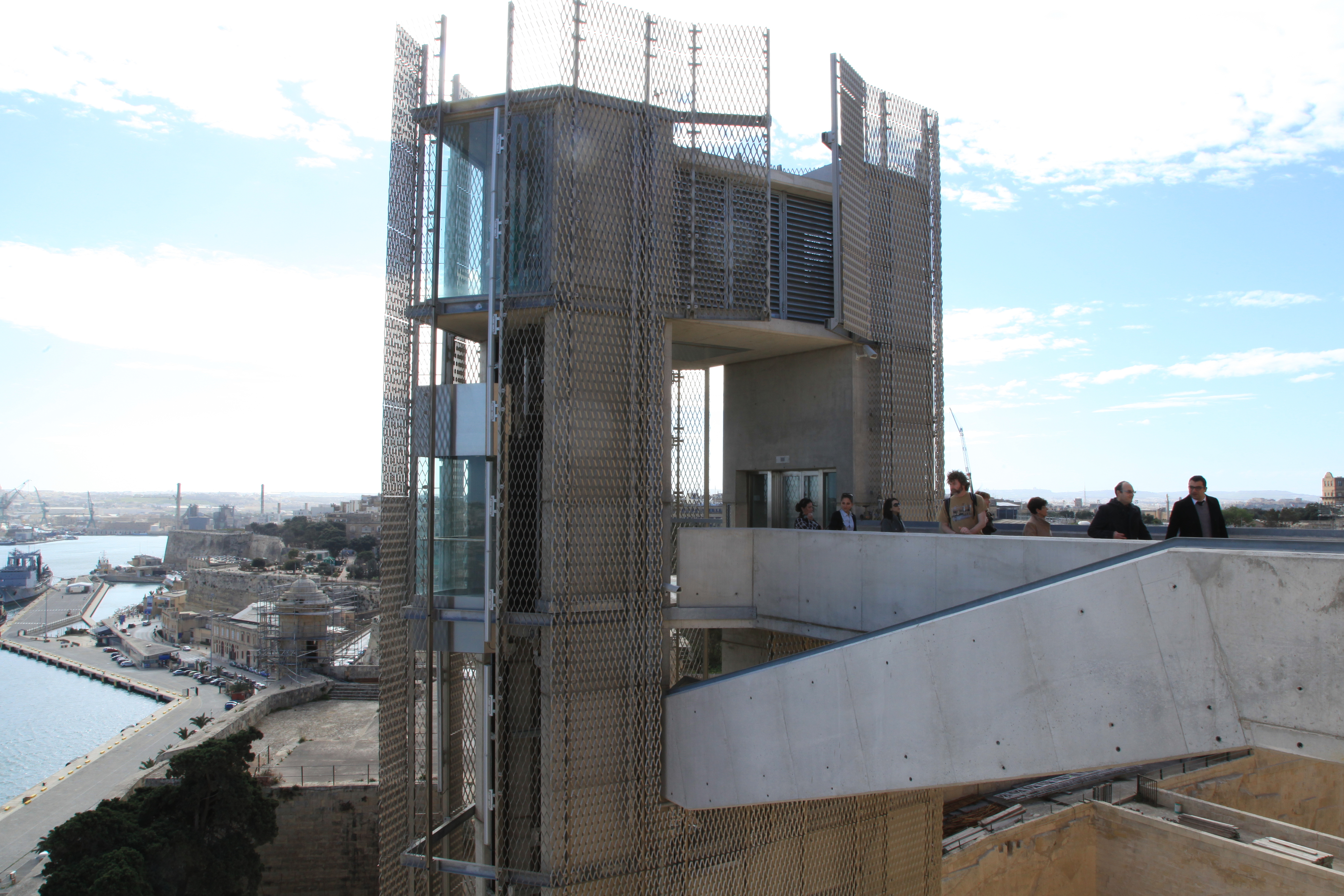 Upper Barrakka Lift at the Upper Barrakka Gardens, Pjazza Kastilja in Valletta, Malta